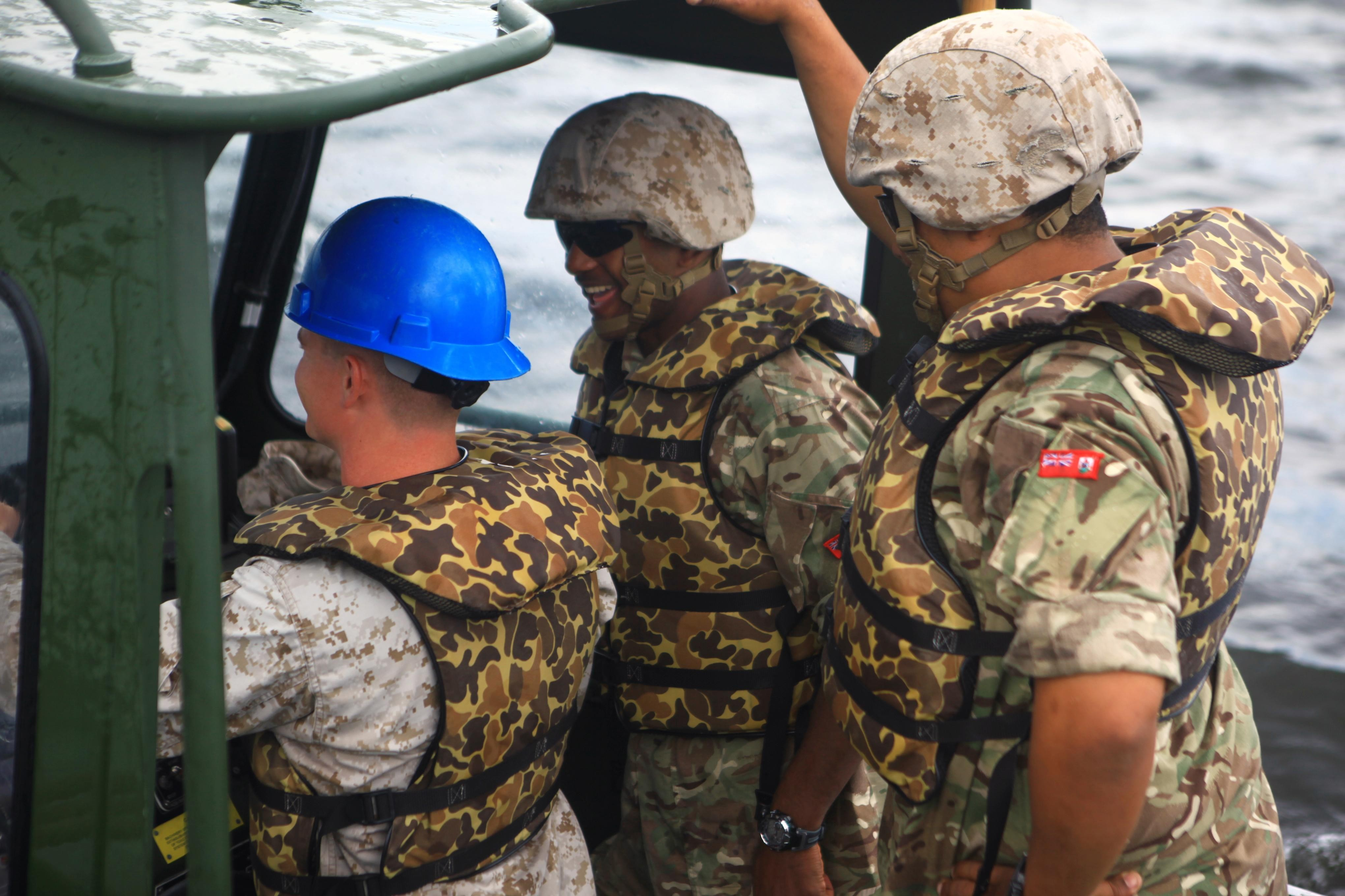 CAMP LEJEUNE N.C. United States - Soldiers with the Bermuda Regiment ask a Marine with 8th Engineer Support Battalion, 2nd Marine Logistics Group questions about the MK III Bridge Erection Boats during Exercise Island Warrior aboard Camp Lejeune, N.C., May 7, 2013. The Bermuda Regiment soldiers come from the Islands of Bermuda. The main island is a 20.6 square-mile island where they have limited space to train. Originally published with the name: 130507-M-AR522-078.JPG